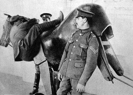 British wooden mechanical horse simulator. Taken before 1915.